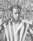 Athletic Club de Bilbao, 1930-31 Spanish League Champions. Line up: Muguerza, Chirri II, Urquizu, Lafuente, Blasco, Ispizúa, Uribe, Unamuno, Castellanos, Bata, R. Echevarría & Gorostiza